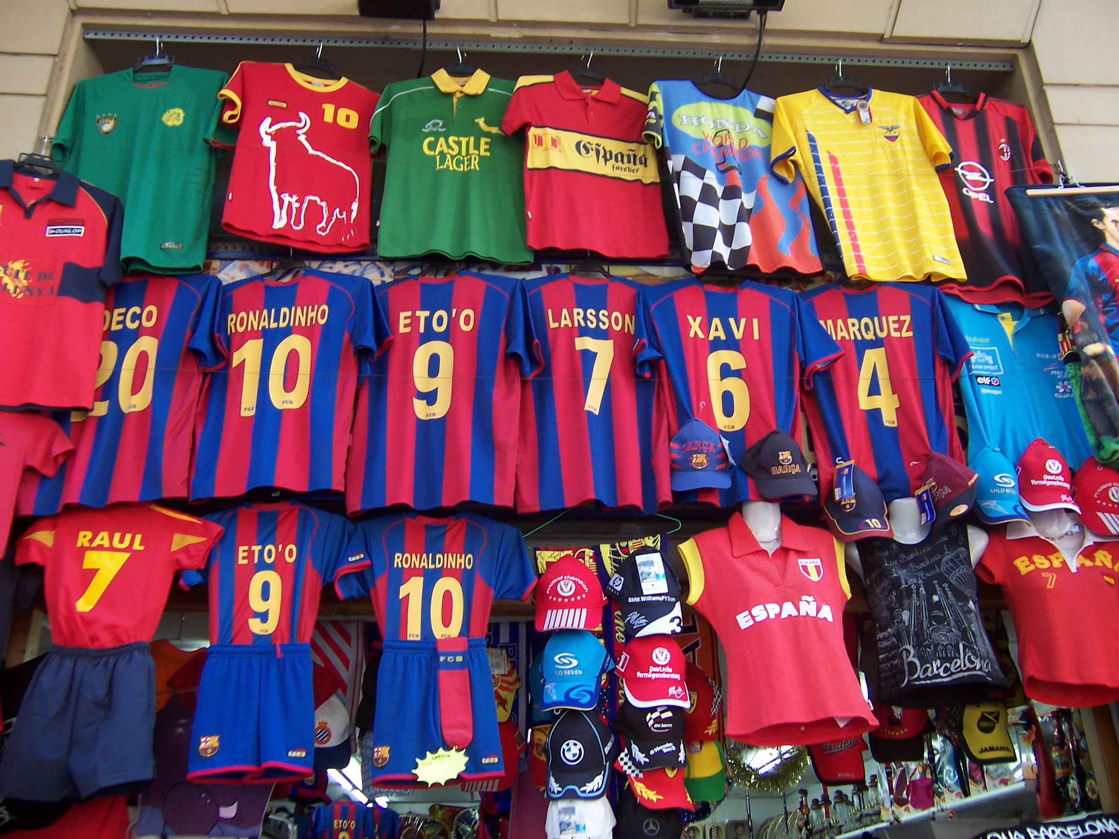 Shirts in a souvenir store in Barcelona.